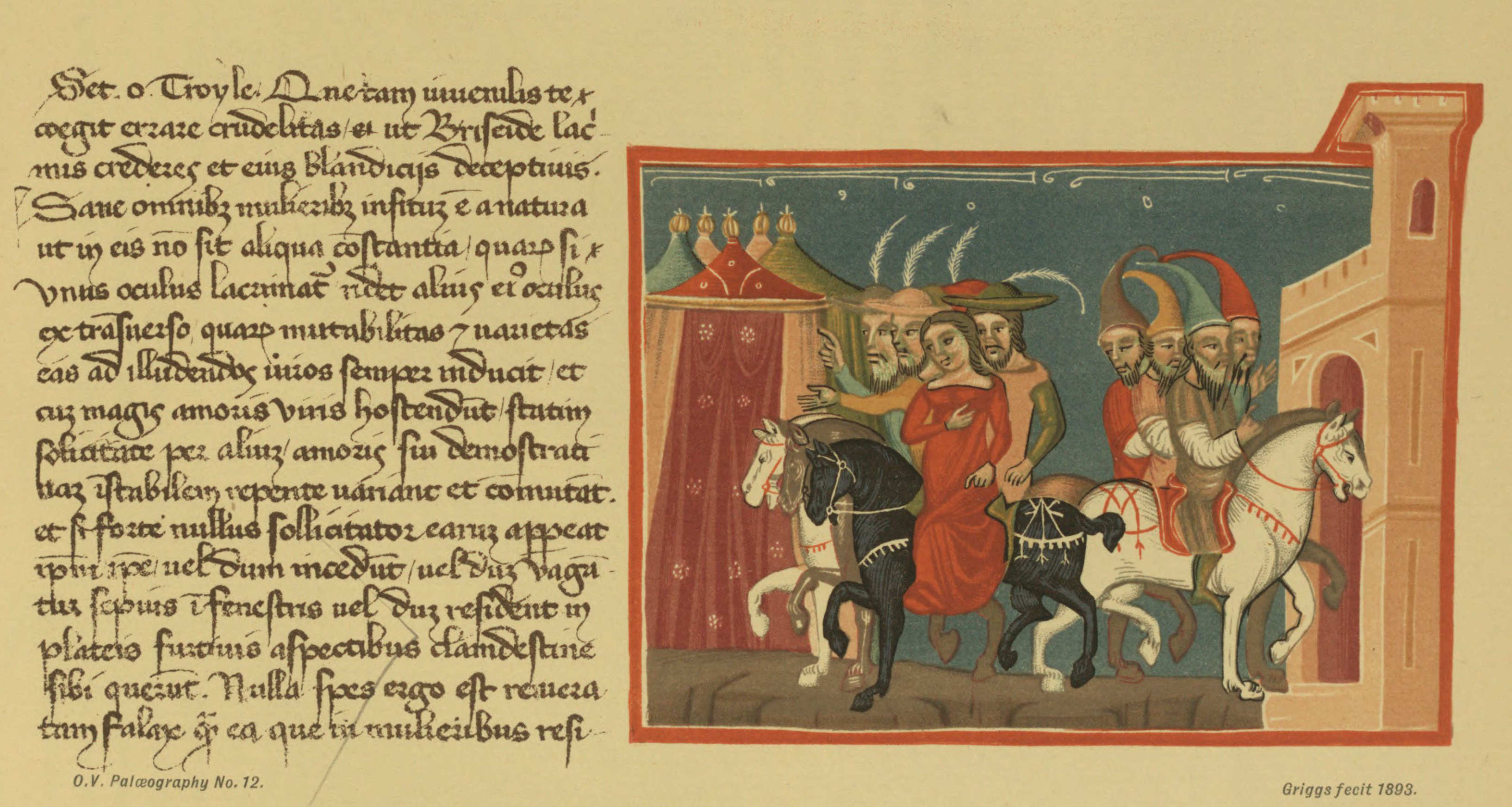 Plate from Palæography: Notes upon the History of Writing and the Medieval Art of Illumination. CRISEIS SENT BACK TO THE GREEKS. From a MS. of the Liber Trojanus written at Venice about 1325.